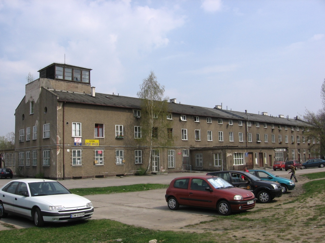 former airport tower with administration building, now out of use after liquidation of the Gądów Mały Airport (Klein Gandau Flugplatz) in Wrocław, Poland